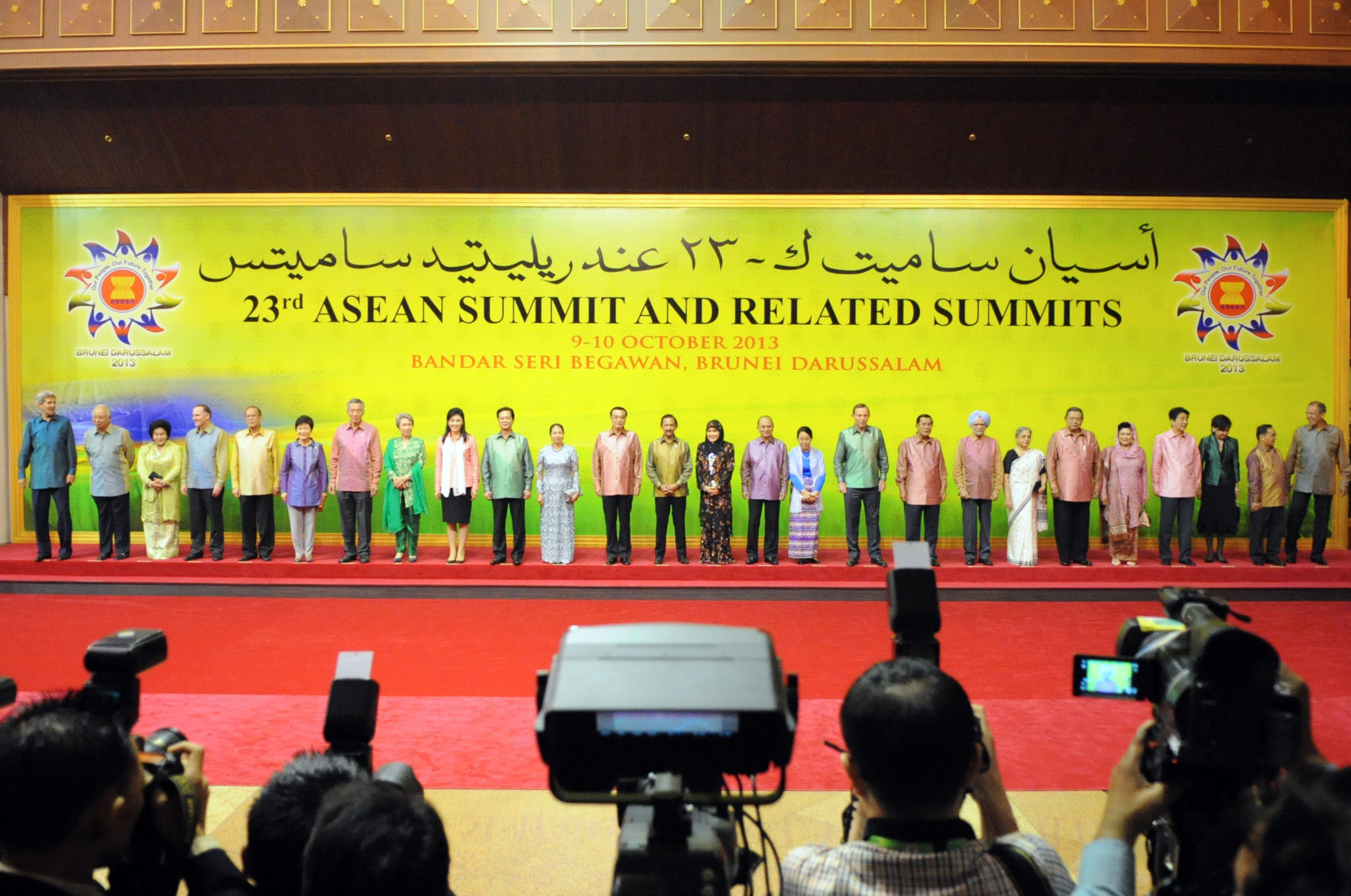 U.S. Secretary of State John Kerry poses with other regional heads of state and leaders of delegation before the start of a dinner and cultural program at the ASEAN Summit meeting in Bandar Seri Begawan, Brunei, on October 9, 2013. [State Department photo/ Public Domain]